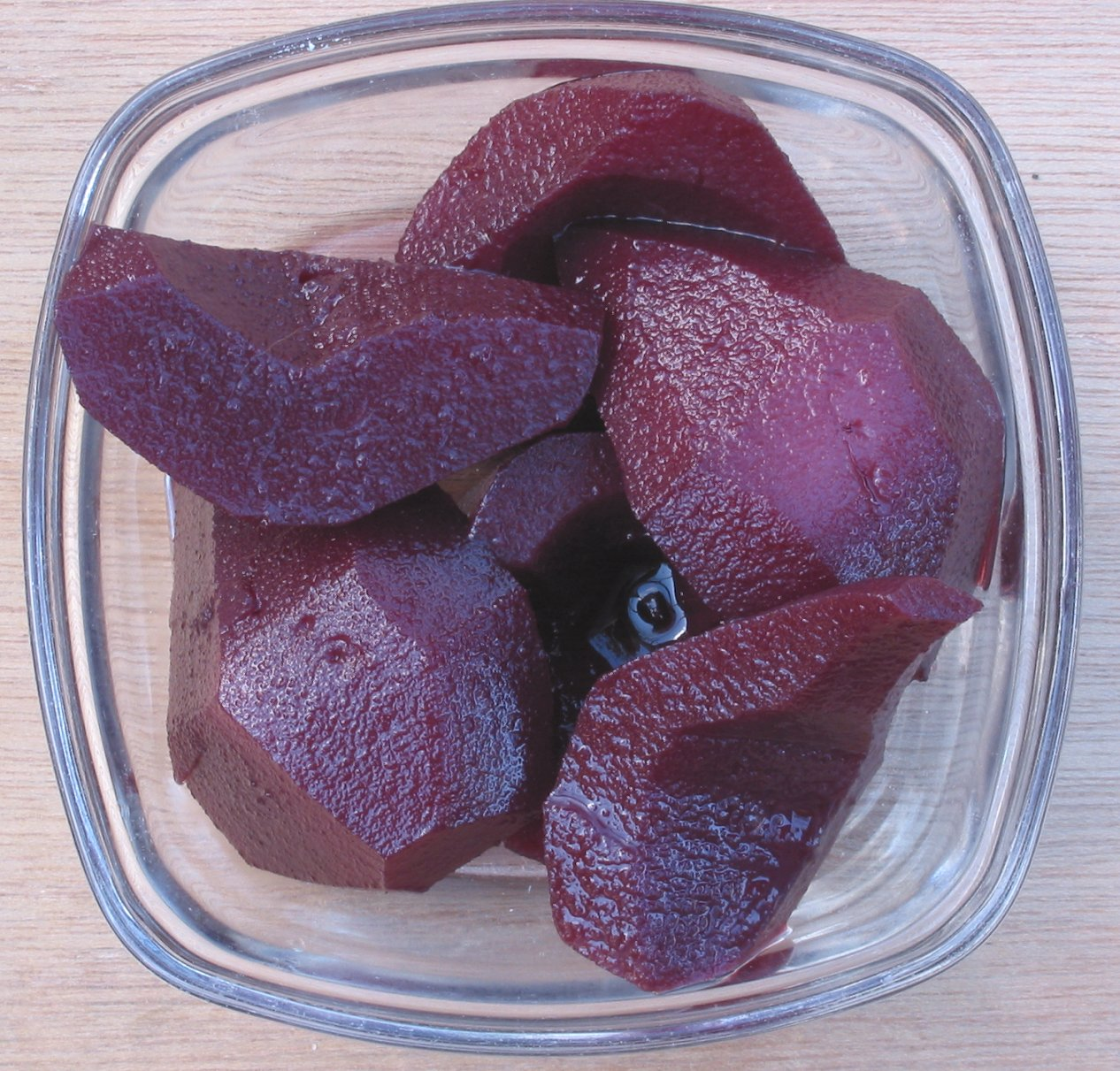 Pyrus communis, Gieser Wildeman pear cultivar simmered in red wine